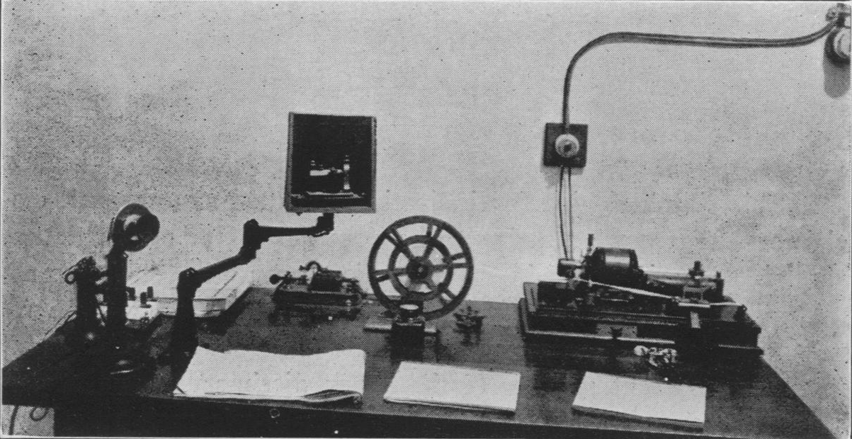 Perforator apparatus for producing punched paper tape that was used to control an automatic wireless telegraphy transmitter. This was used at the Telefunken station at Sayville, Long Island. See Wheatstone system. Original caption: "The perforator in which a paper strip is unrolled at any desired speed and punctured by small holes; the separation between holes representing either the dots or dashes produced by an ordinary telegraph key."